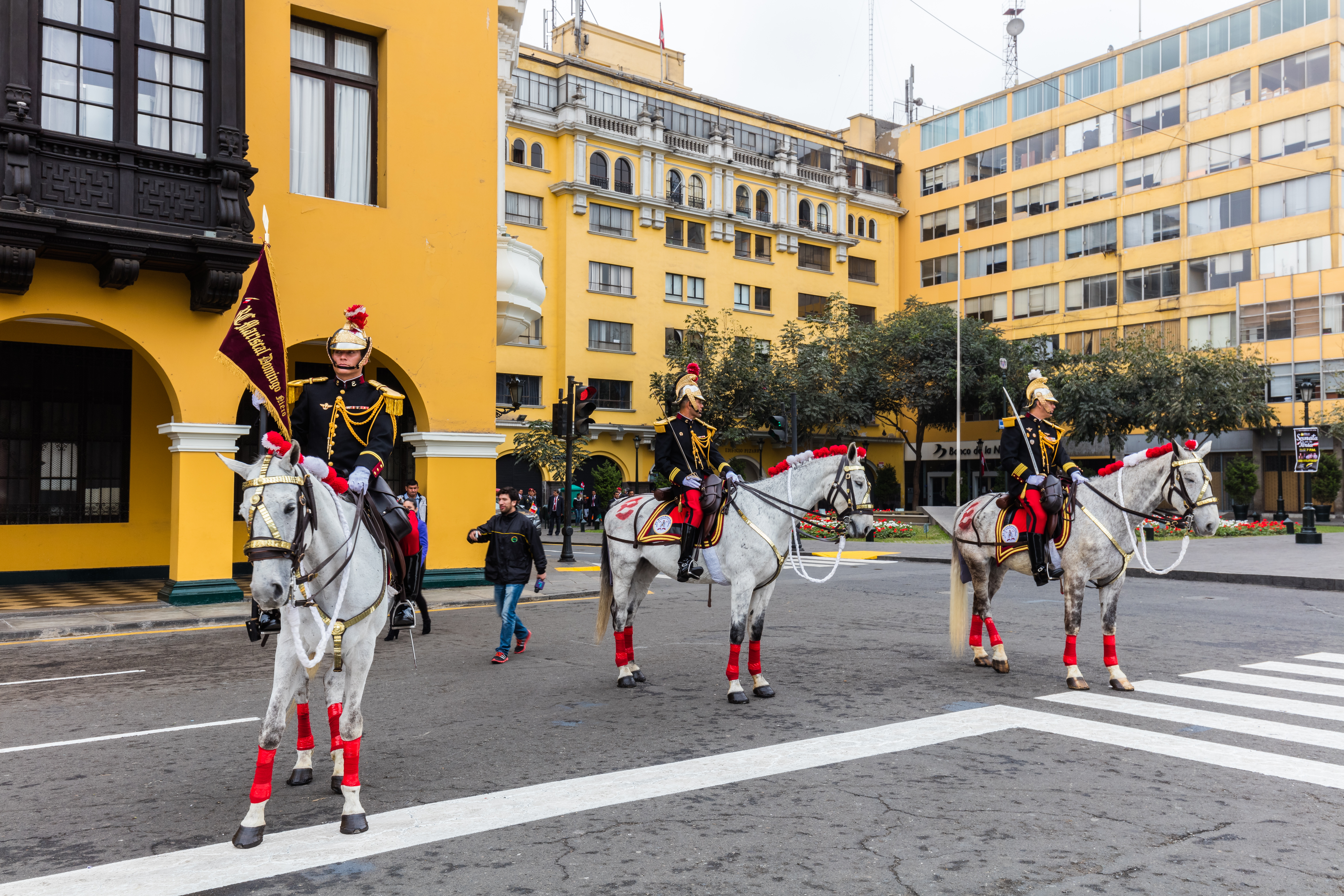 Presidential guard, Plaza de Armas, Lima, Peru